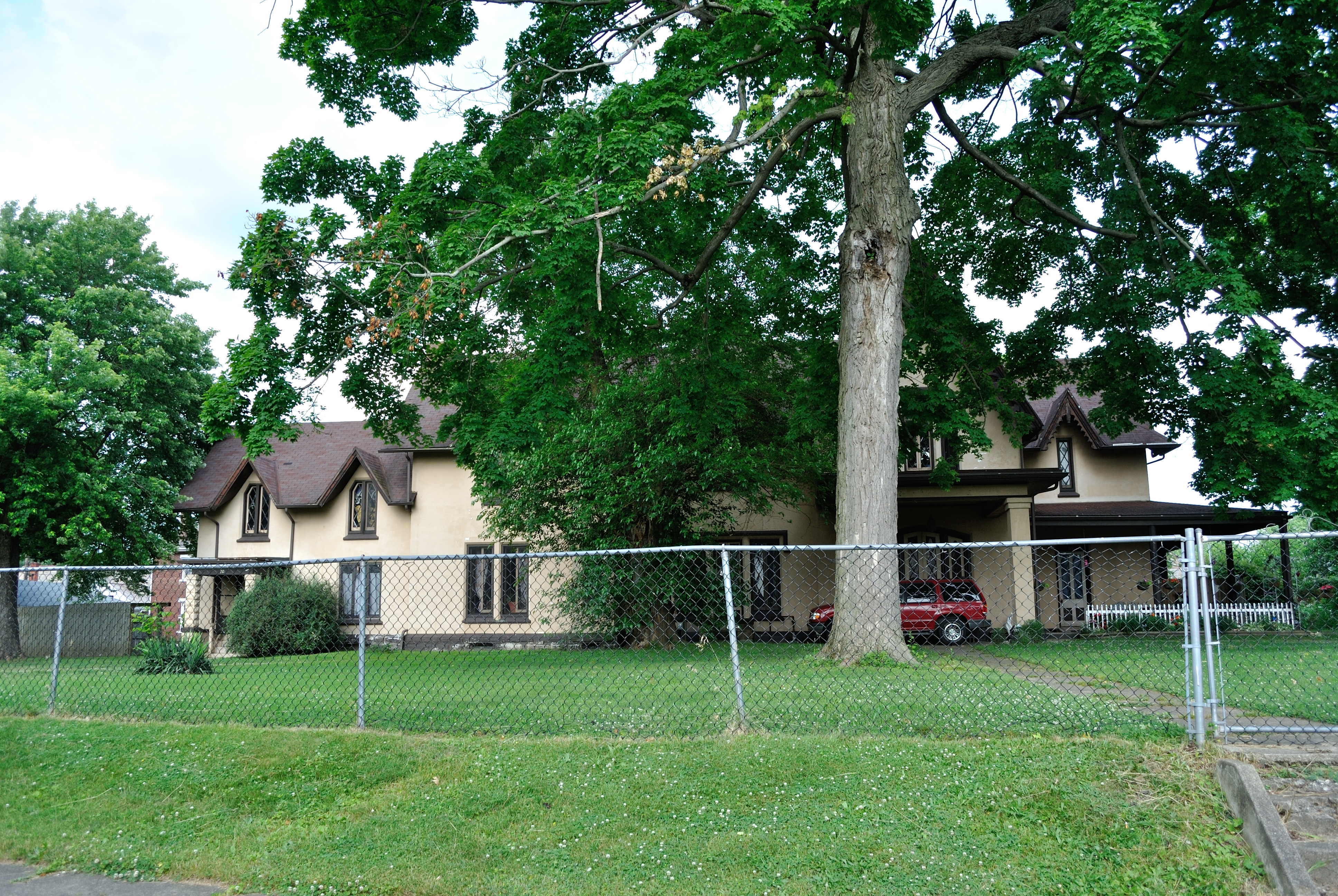 Located in Newark, Ohio and listed on the NRHP